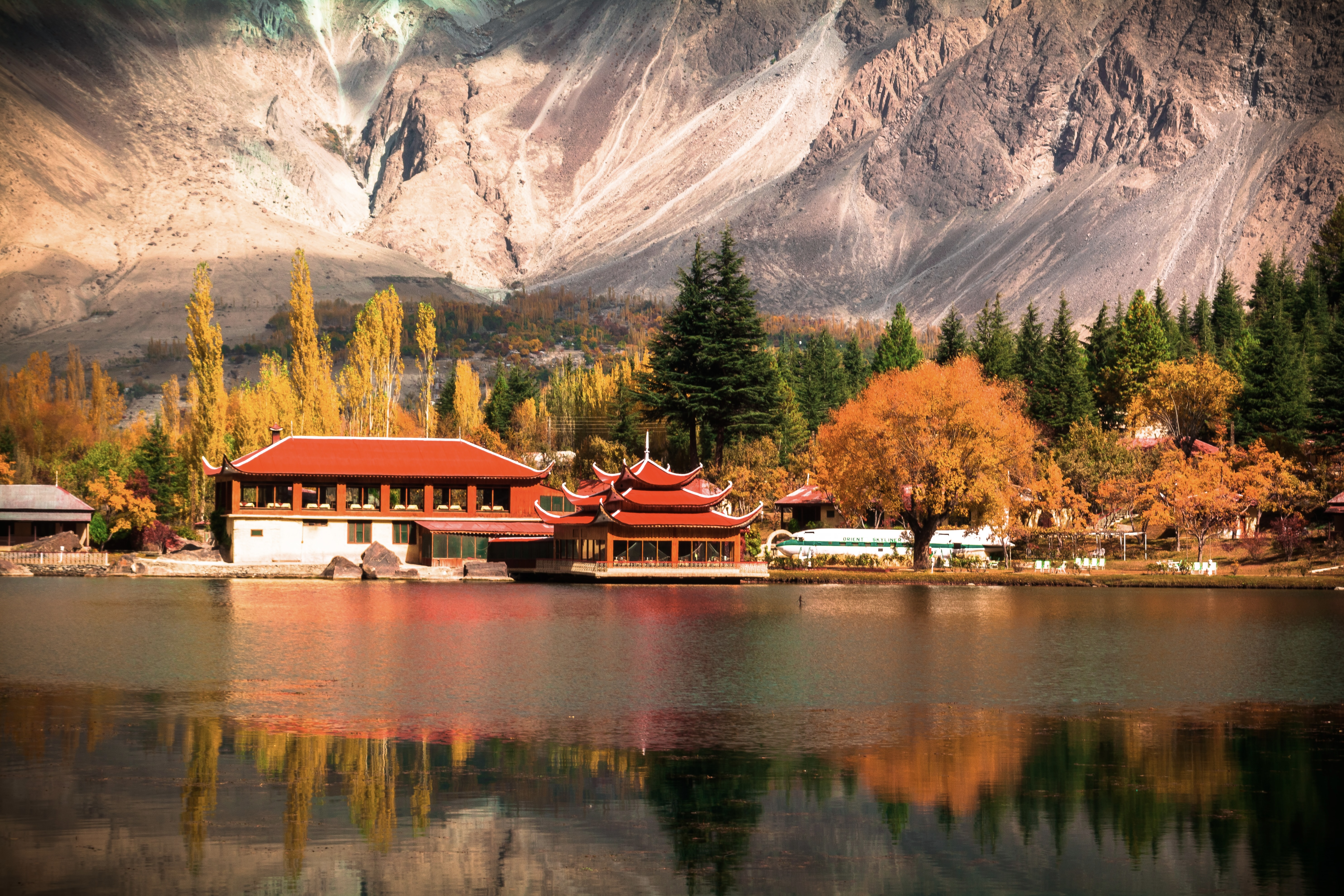 Shangri-La (Shangrila), Skardu